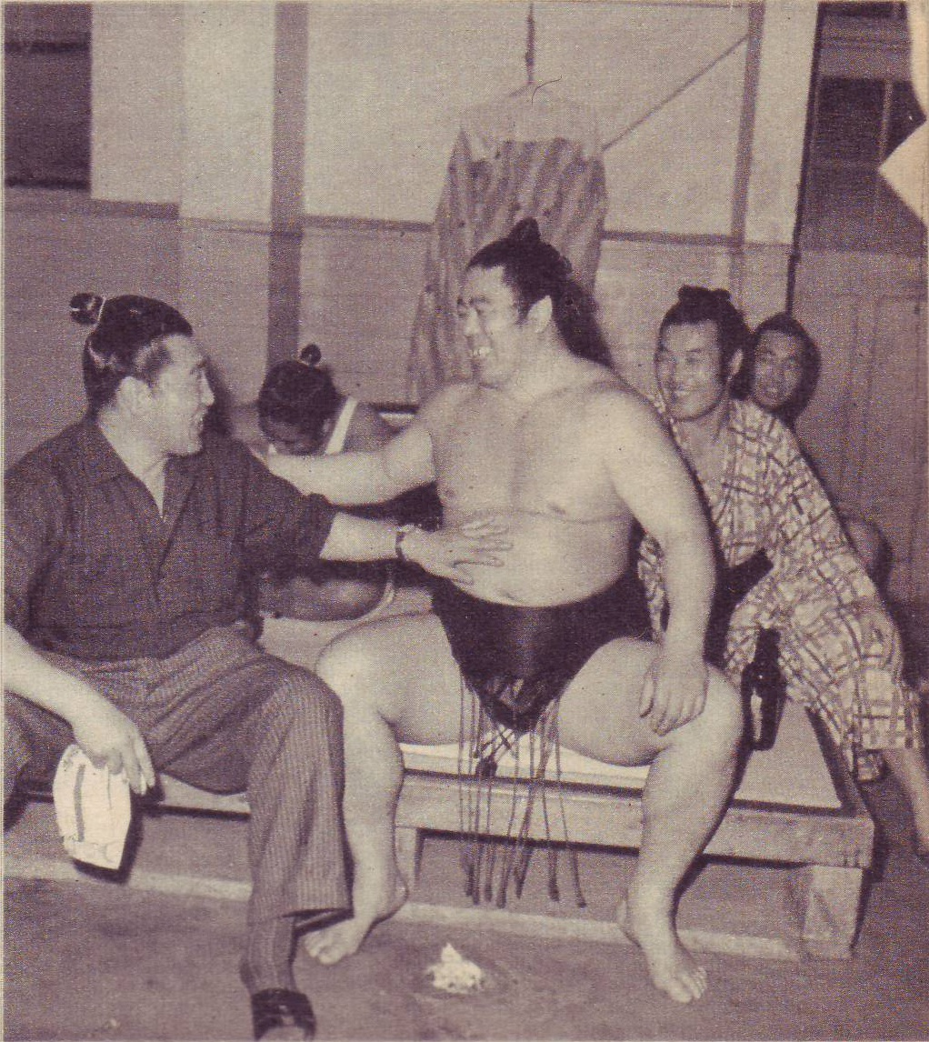 Kitanonada Noboru (Sekiwake). taken in 1961.